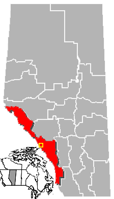 Location of Lake Louise, Census Division No. 15, Albera